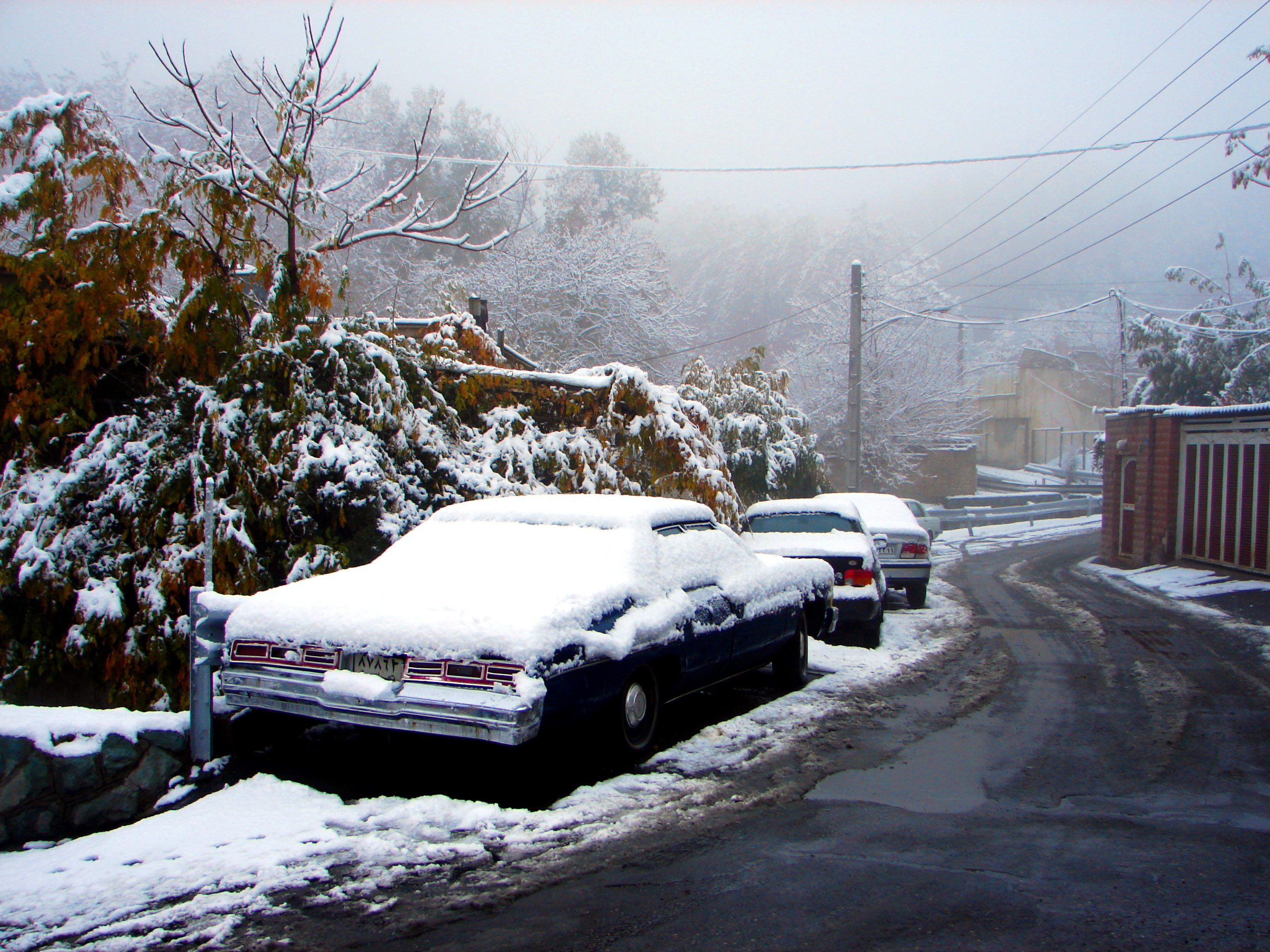 Snow over cars in Tehran.